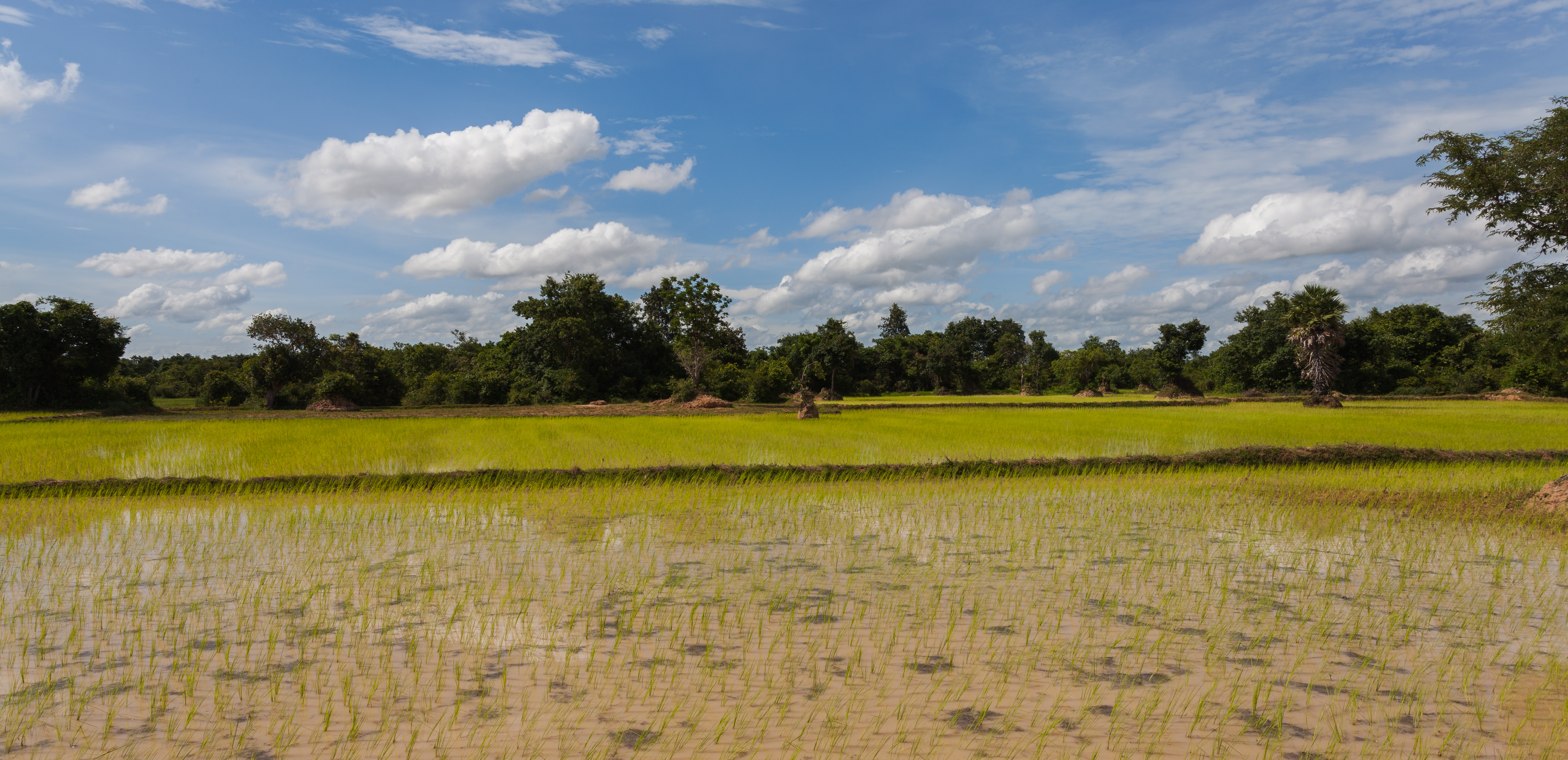 Paddy field, Angkor, Cambodia